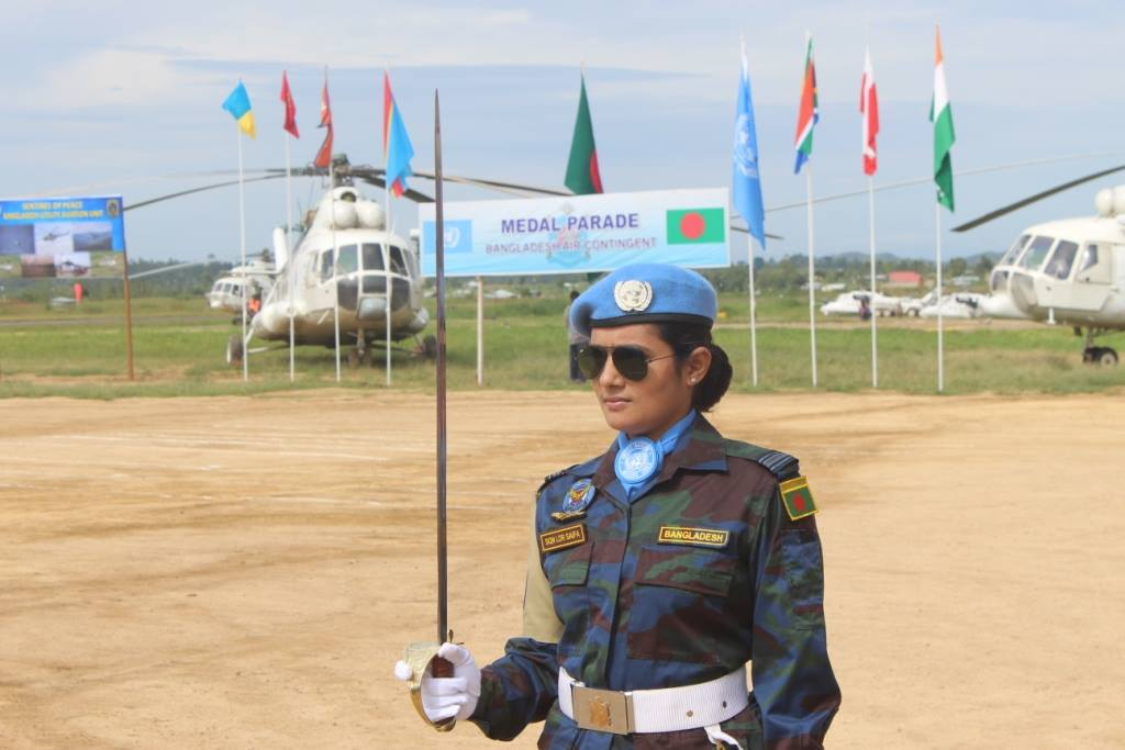 Guard of Honour during UN Medal Awarding Parade at Bunia. Province Orientale. Republique democratique du Congo